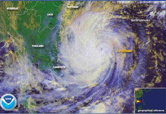 Ketsana at peak strength and approachinf its second landfall in Vietnam.